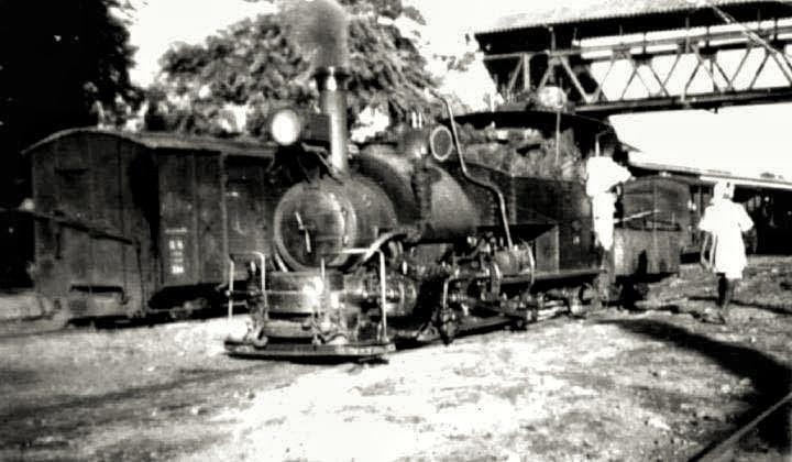 Narrow gauge locomotive at Siliguri Town station in 1881.